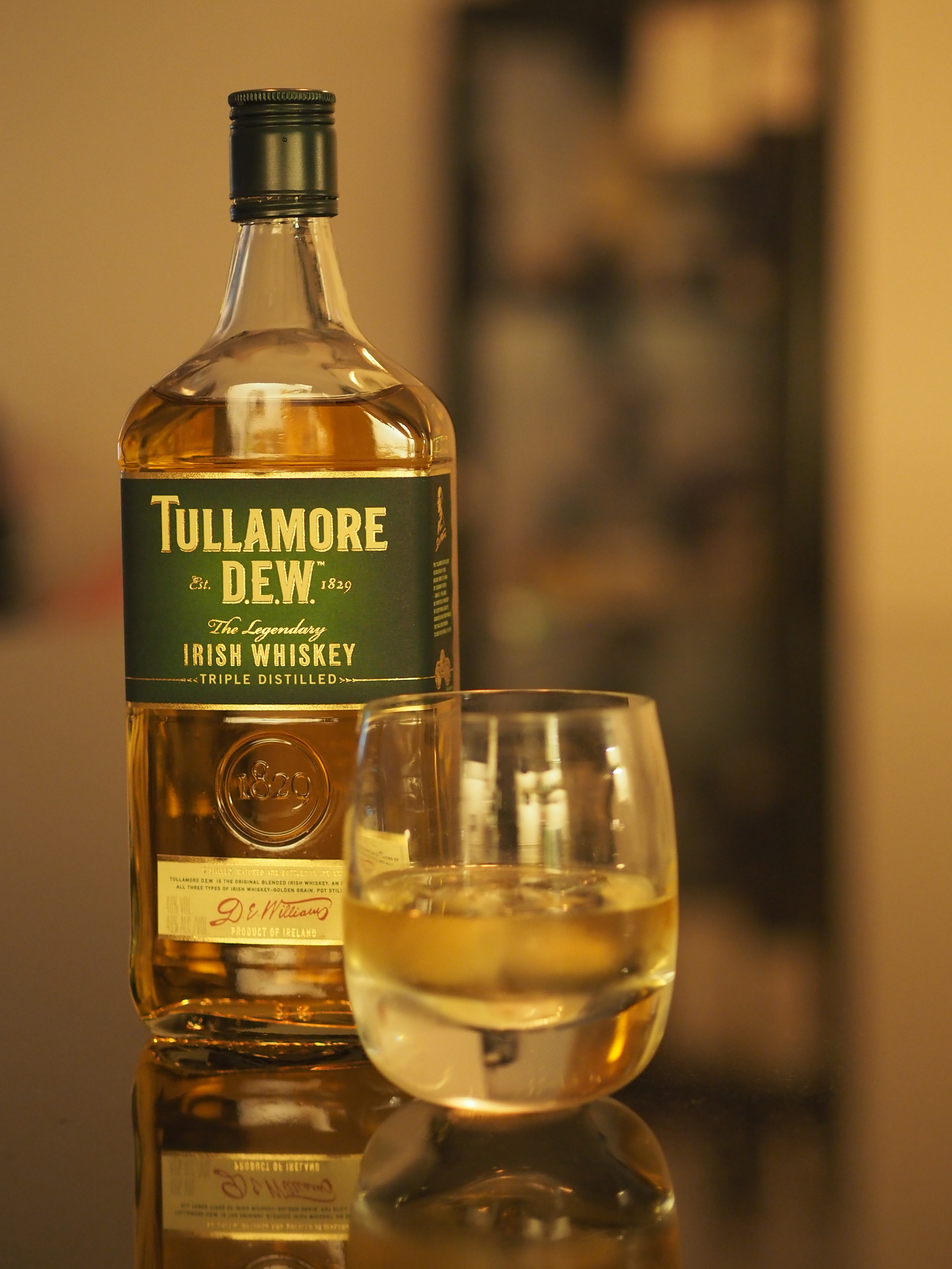 A tumbler of Tullamore D.E.W. on the Rocks and 70cl bottle